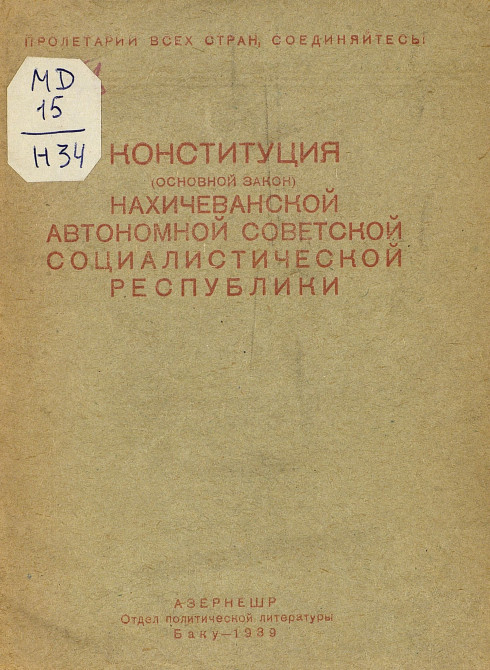 Cover of 1938 Constitution of Nakhichevan Autonomous Soviet Socialist Republic